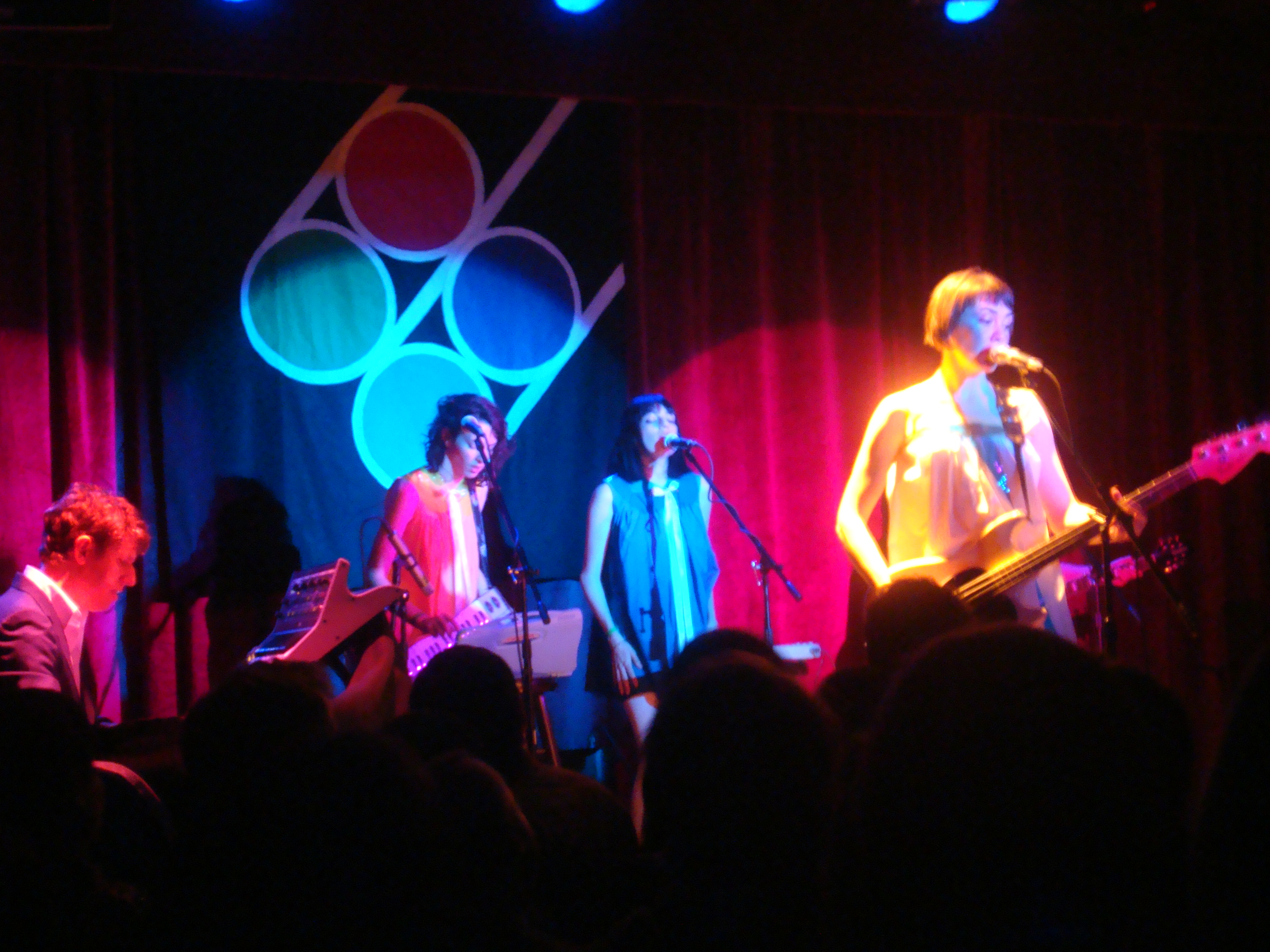 The Bird and the Bee perform at The Bell House in Brooklyn, New York.